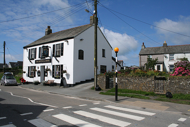 St Teath: The Bettle & Chisel One of Delabole'’s public houses, with quarrymen’'s cottages on the right. The pub serves St Austell ales and offers bed and breakfast accommodation. It was formerly the Commercial Inn